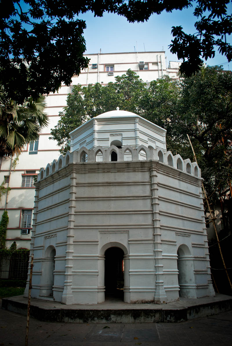 Job Charnok Tomb